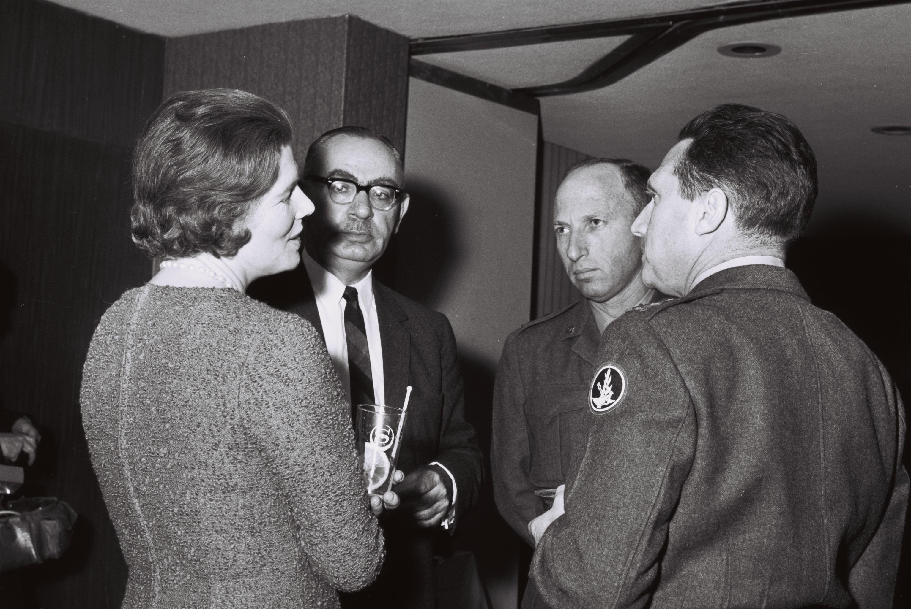 FOREIGN MIN. CHRISTOPHER SOAMES, IN THE BRITISH CONSERVATIVE PARTY'S "SHADOW CABINET," IN CONVERSATION WITH ALUF ARIEH YARIV AND ALUF ZAMIR, AT SHERATON HOTEL, TEL AVIV Note: This description has been identified as biased or incorrect: Special:Diff/436966164.